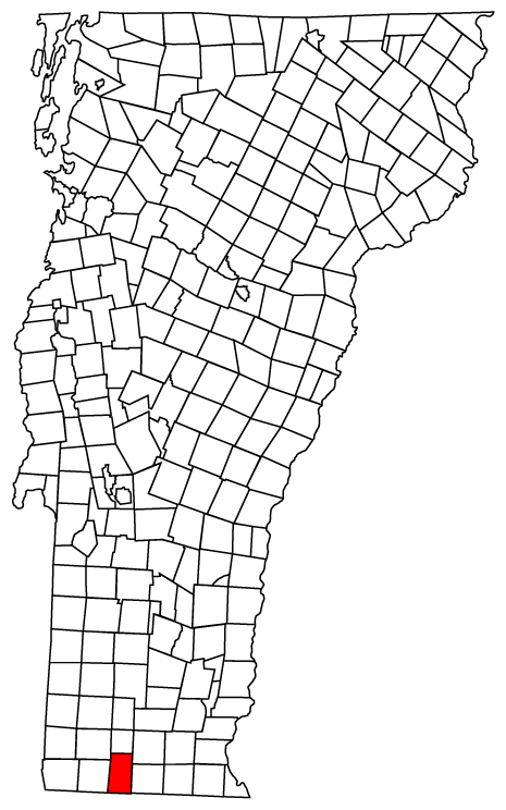 Description: Map of Vermont towns with Readsboro highlighted Source: Map created by Jared C. Benedict on 26 March 2004. Copyright: © Jared C. Benedict.